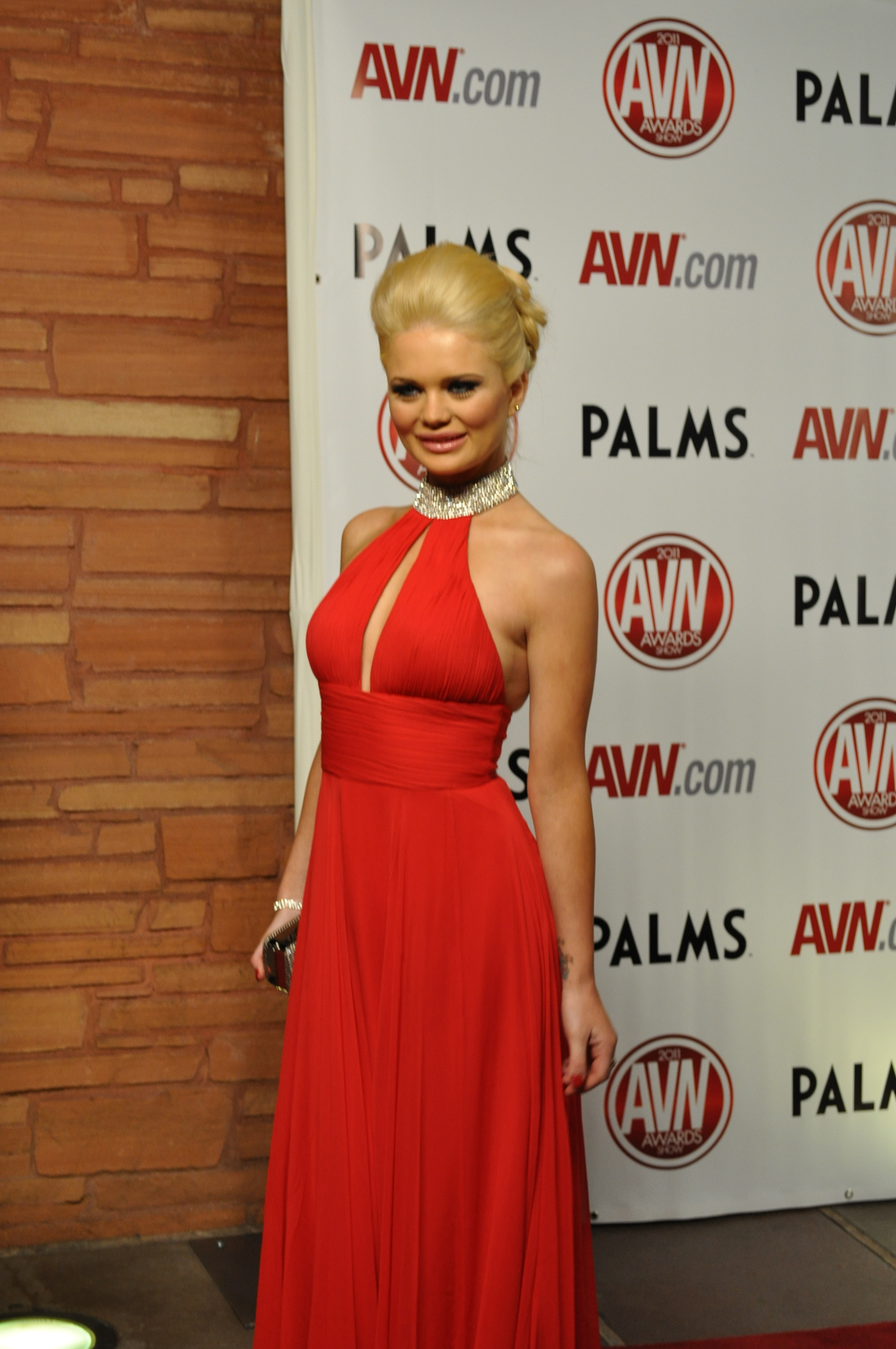 Alexis Ford at AVN Awards 2011